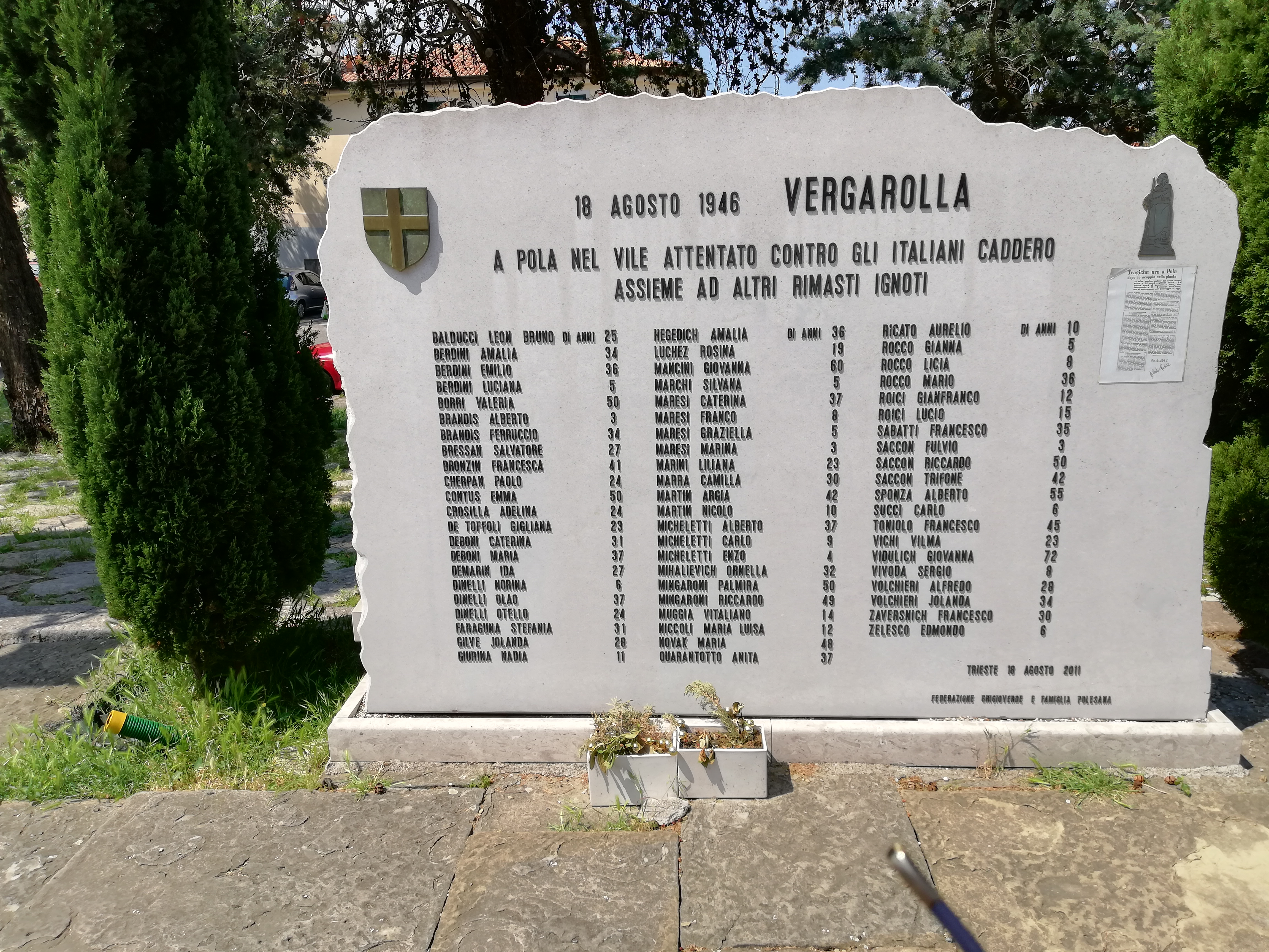 Monument forVergarolla Massacre in Trieste, Italy